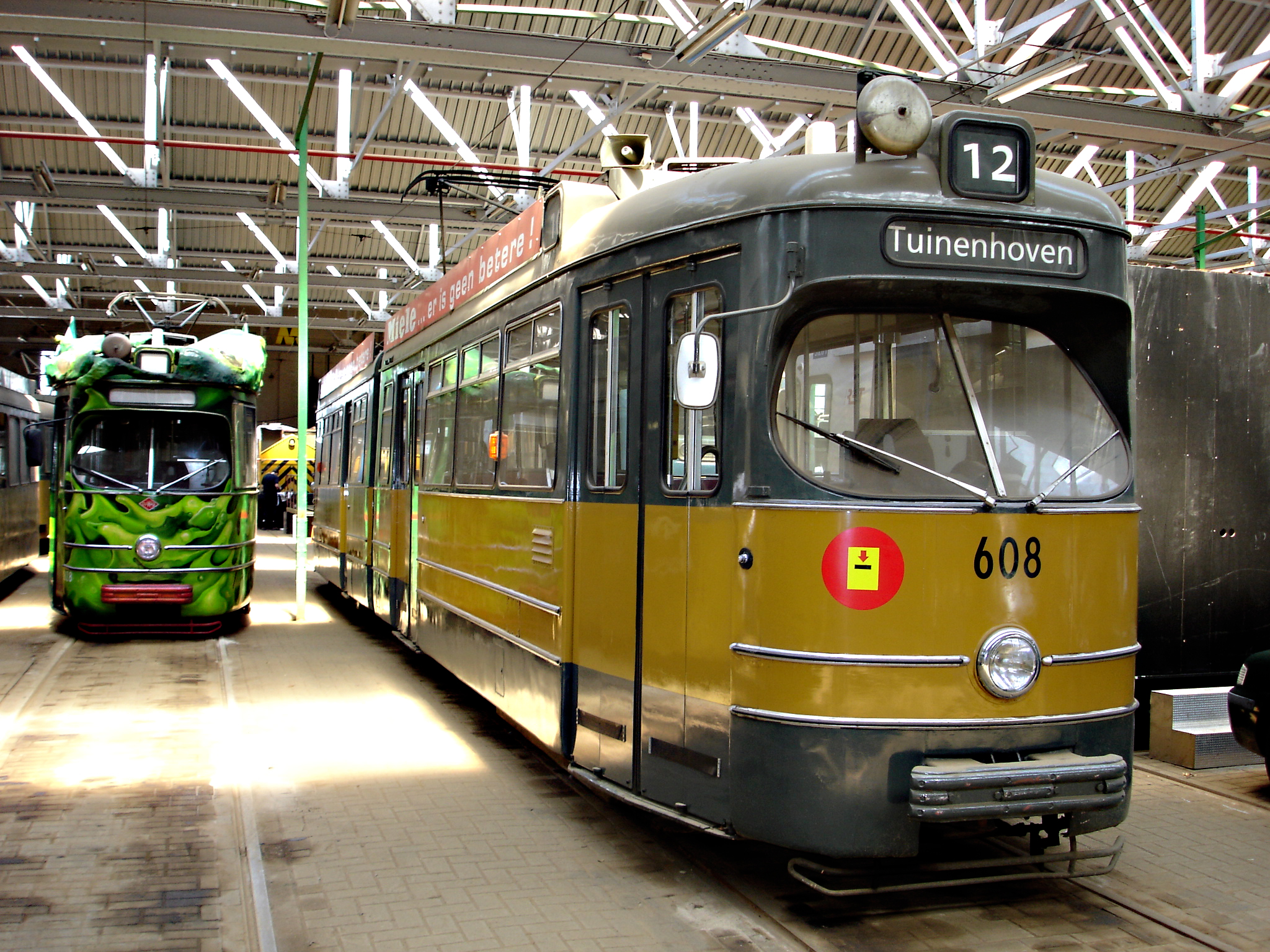 Duwag 608 Trammuseum Rotterdam